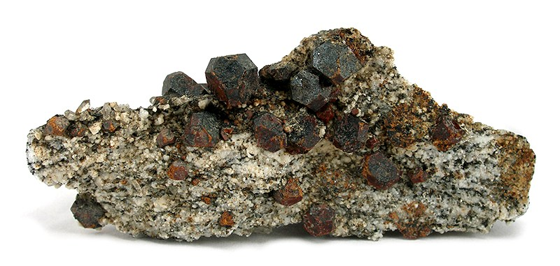 Cafarsite Locality: Wanni glacier - Scherbadung Mt. (Cervandone Mt.) area, Kriegalp Valley (Chriegalp Valley), Binn Valley, Wallis (Valais), Switzerland (Locality at ) Size: small cabinet, 7.4 x 3.5 x 2.2 cm Cafarsite on Granite Aesthetically perched on granite are several, reddish-orange, dodecahedrons, to .8 cm across, of this rare calcium, titanium, iron, manganese, arsenate . This specimen is from the type locality for cafarsite, at Binntal and exhibits classic form. As an added bonus, a few, tiny, gemmy, quartz crystals are also present. This is a fine matrix example of a rare species.